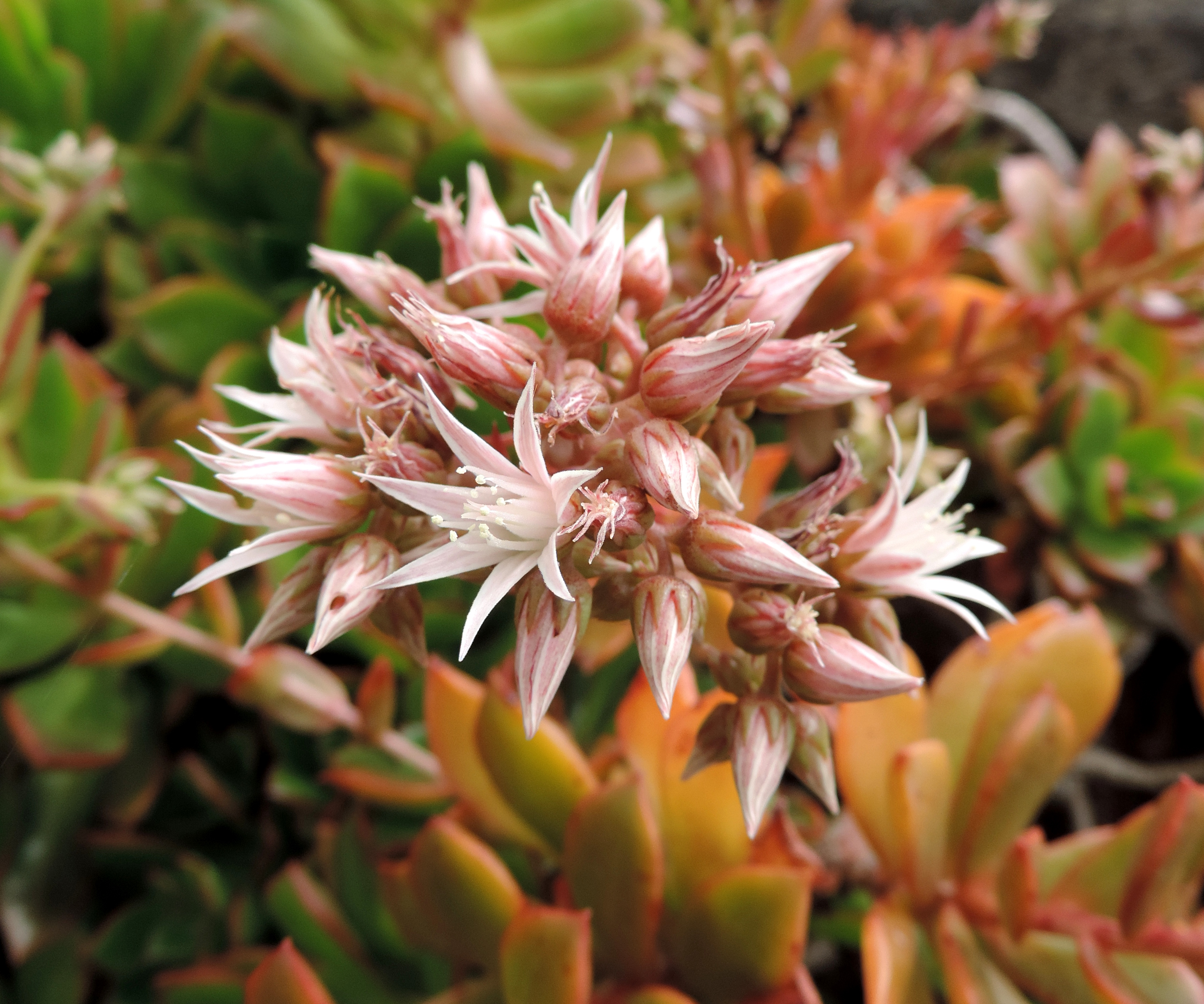 Aeonium decorum in Jardín Botánico Canario Viera y Clavijo